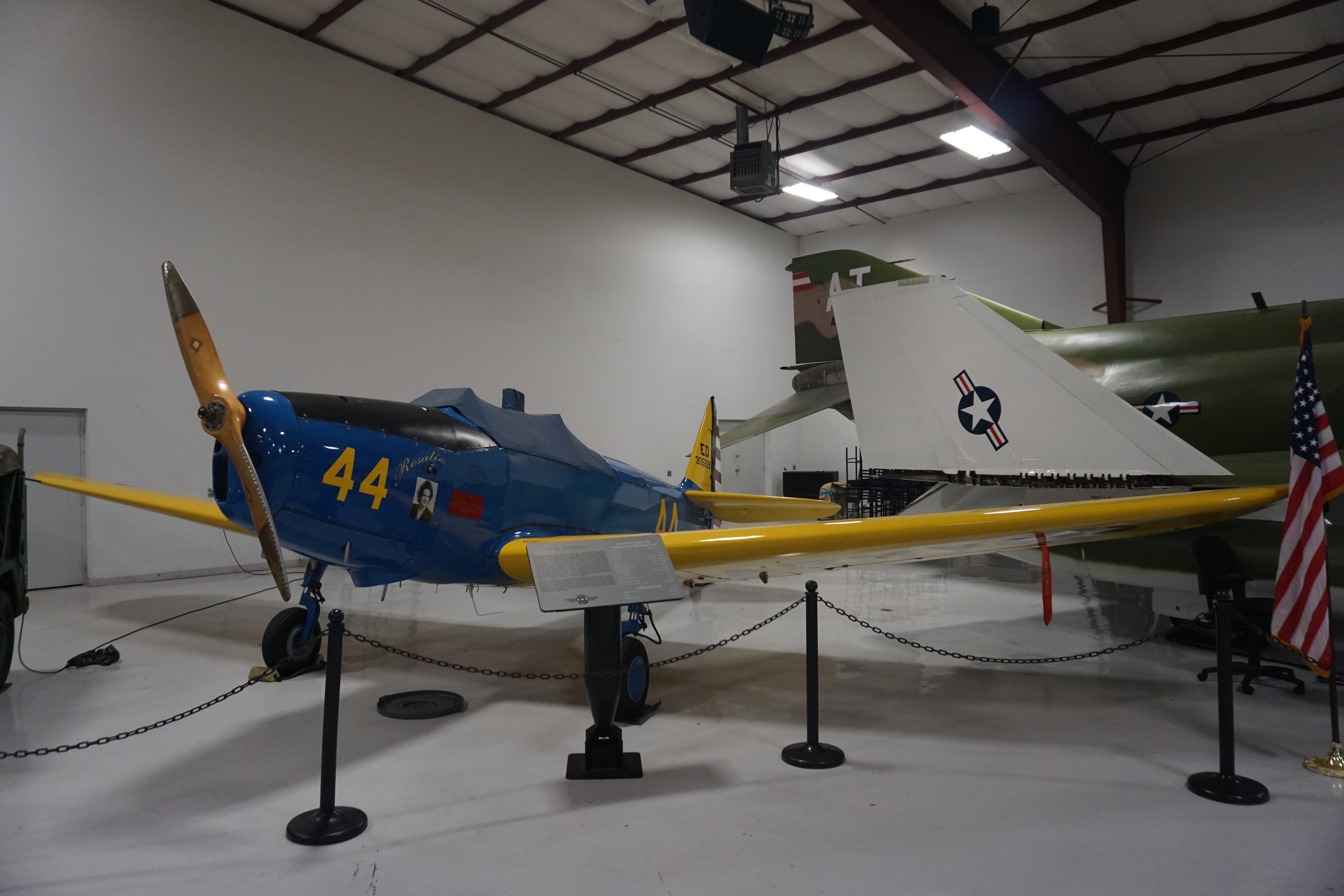 A Fairchild PT-19 Cornell on display at the Cavanaugh Flight Museum at Addison Airport in Addison, Texas (United States).